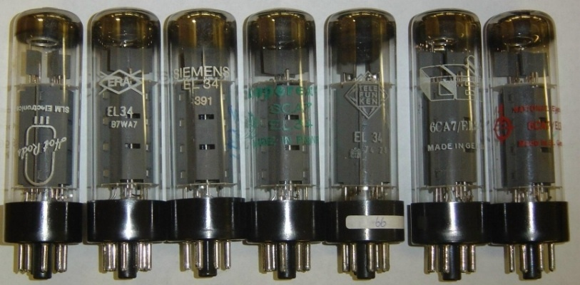 el34